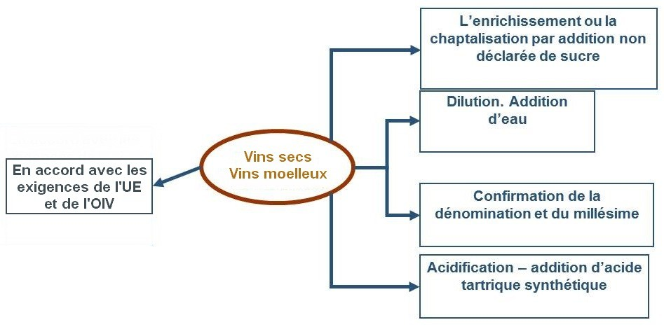 Figure 10: Application de la SNIF-NMR et de l’IRMS pour la détermination de l’authenticité du vin